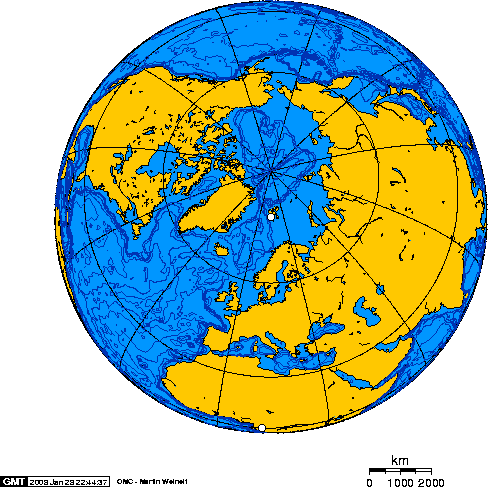 Orthographic projection centered over Kongsfjord, Svalbard.